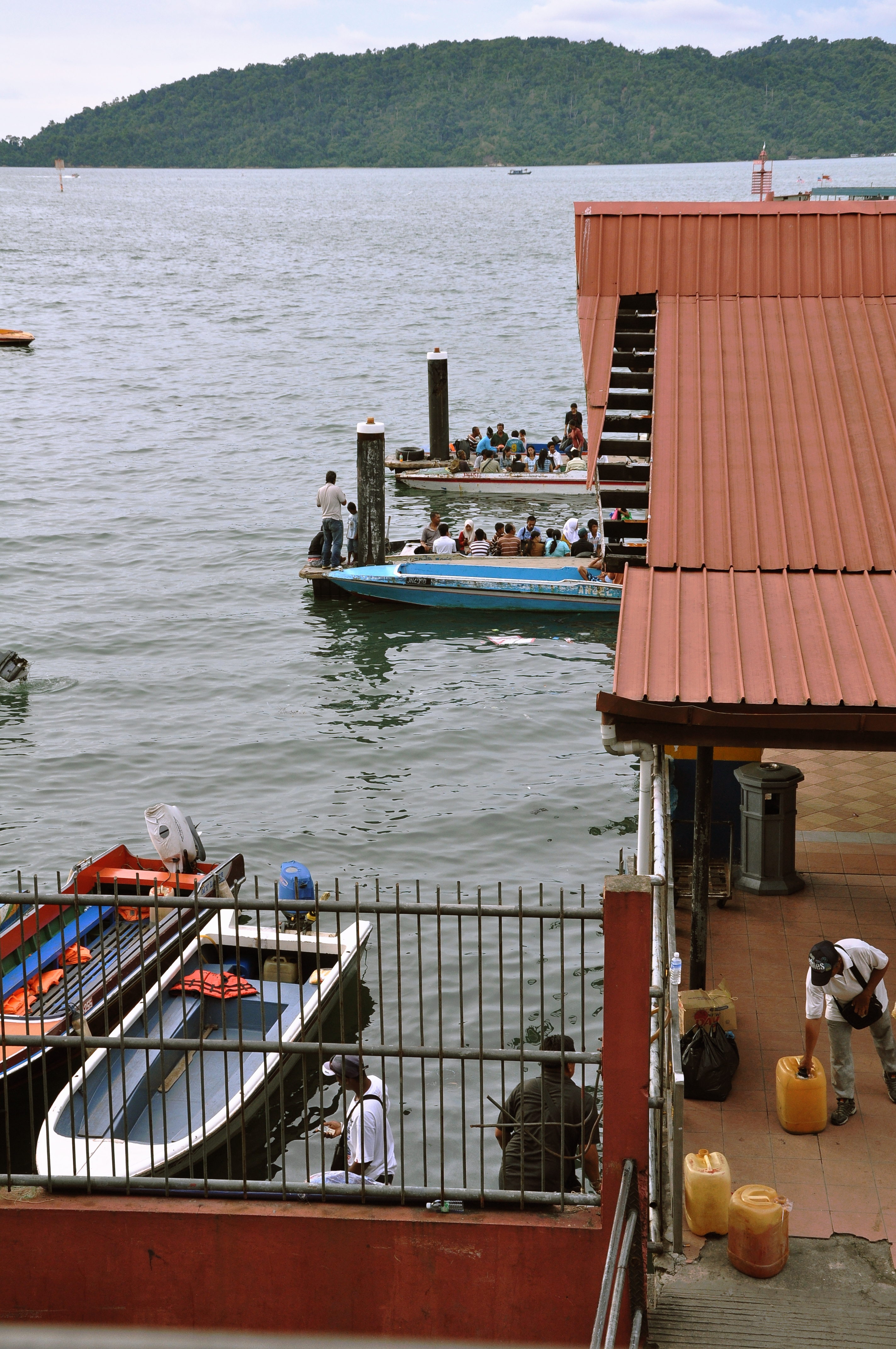 Kota Kinabalu, Sabah, Malaysia. Jetty next to fish market used mostly to go to Gaya Island Filipino village. Heavy boat traffic can usually be seen. Gaya island on background. More shots of this scene can be seen here, here and here.